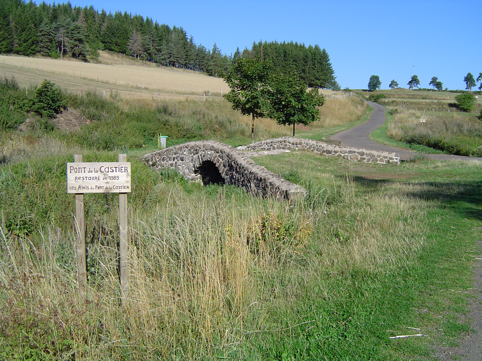 Landos Pont de la Castier.